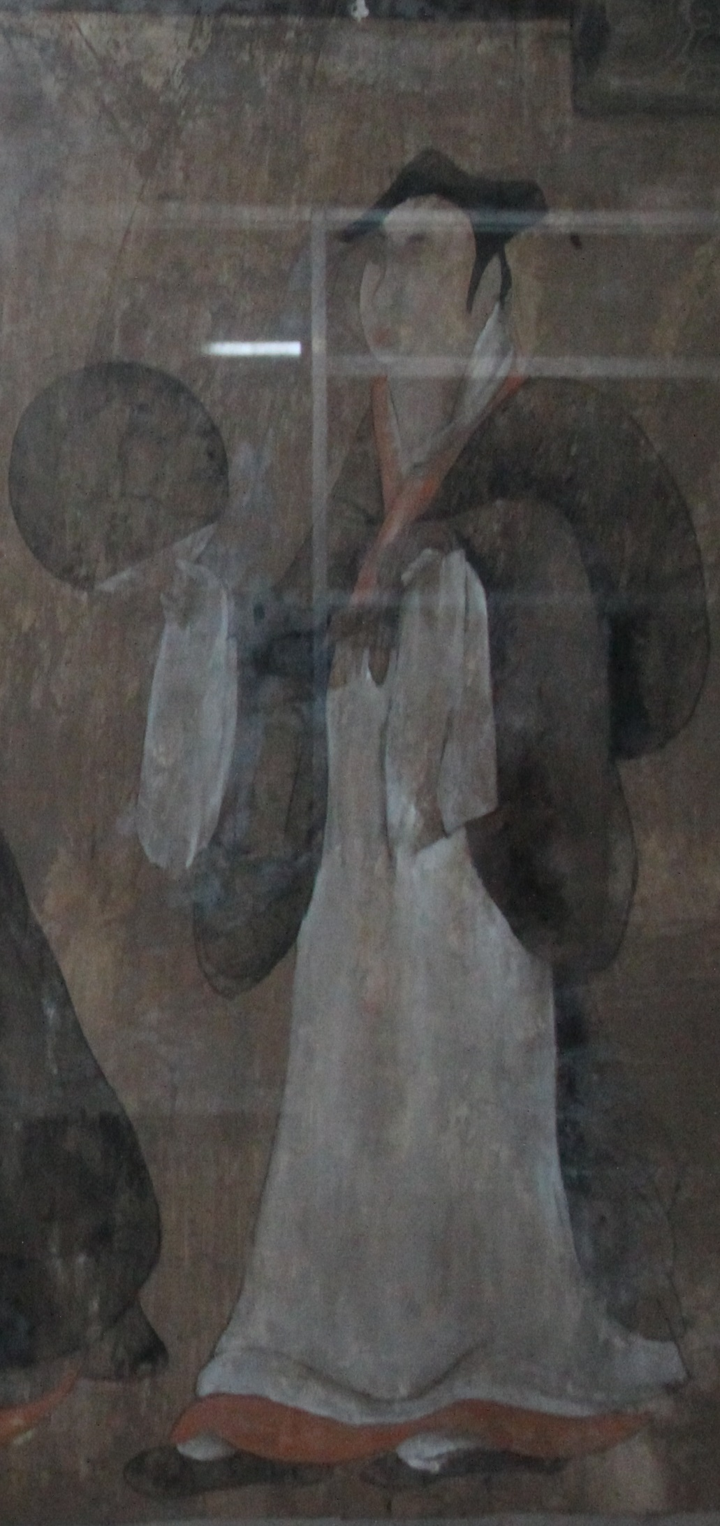 The Dahuting Tomb (Chinese: 打虎亭汉墓, Pinyin: Dahuting Han mu; Wade-Giles: Tahut'ing Han mu) of the late Eastern Han Dynasty (25-220 AD), located in Zhengzhou, Henan province, China, was excavated in 1960-1961 and contains vault-arched burial chambers decorated with murals showing scenes of daily life. For further information, see the Baidu article (in Chinese): 打虎亭汉墓. Click here for more pictures and a step-by-step walkthrough of the tomb, from the outside, down a stairwell, and through the vaulted burial chambers.